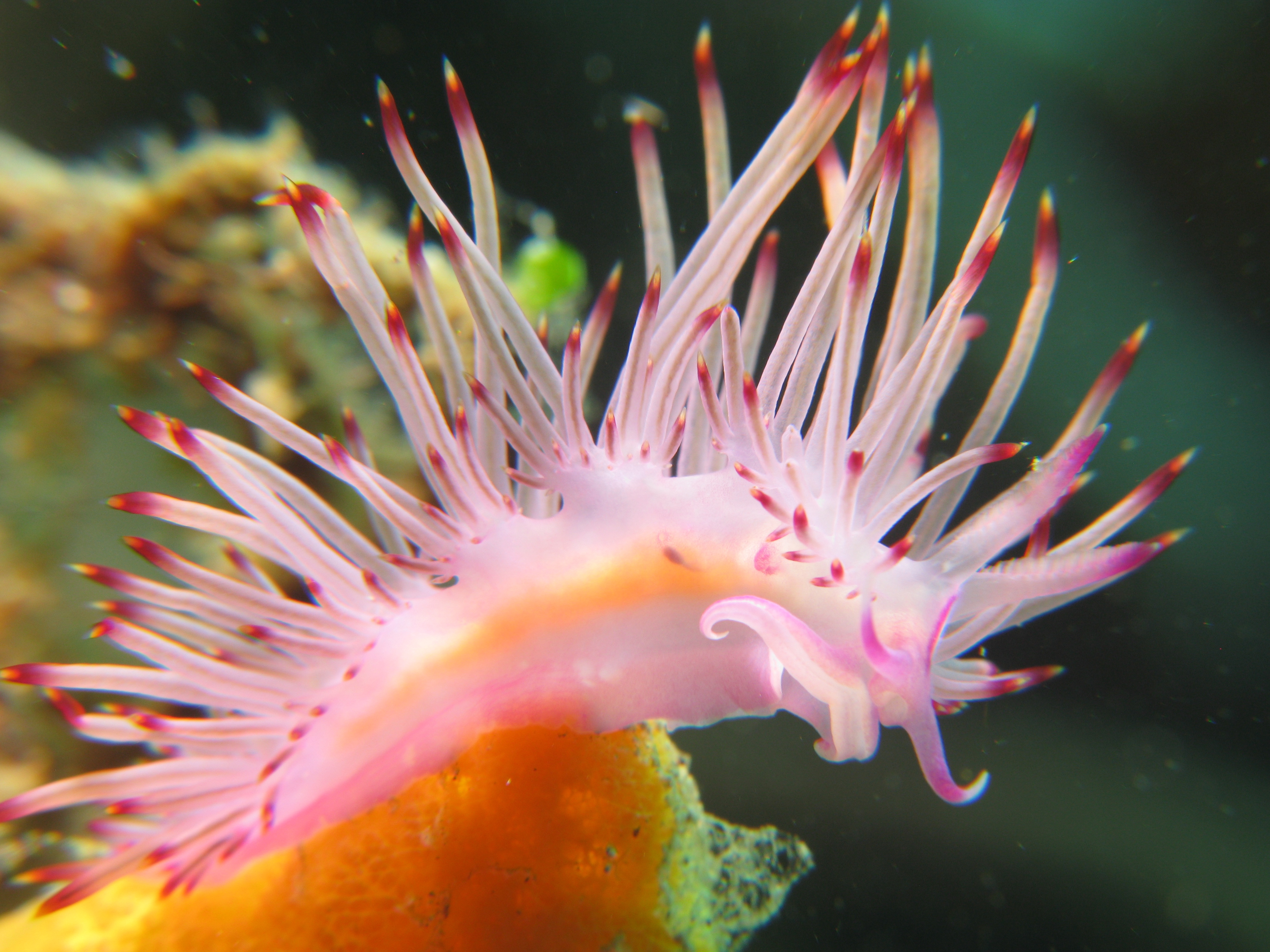 Flabellina exoptata, Indonesia